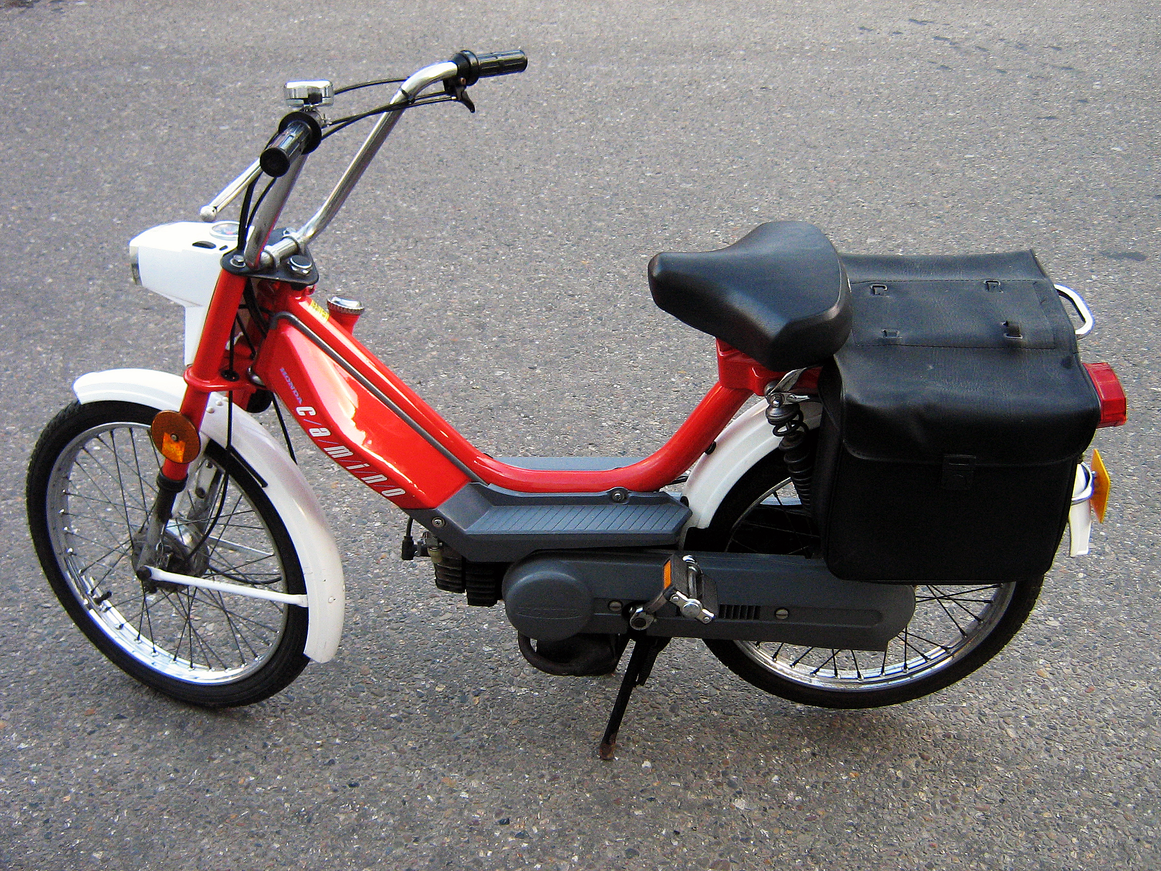 This is yesterday's picture that I forgot to put up. The dinner party the day before ran late and the wine was great, so... This is my neighbour's vintage moped which he asked me to take a picture of so he can sell it. Not a very artsy shot then, but I thought it was very fitting for red week. Today's shot will be put up later.